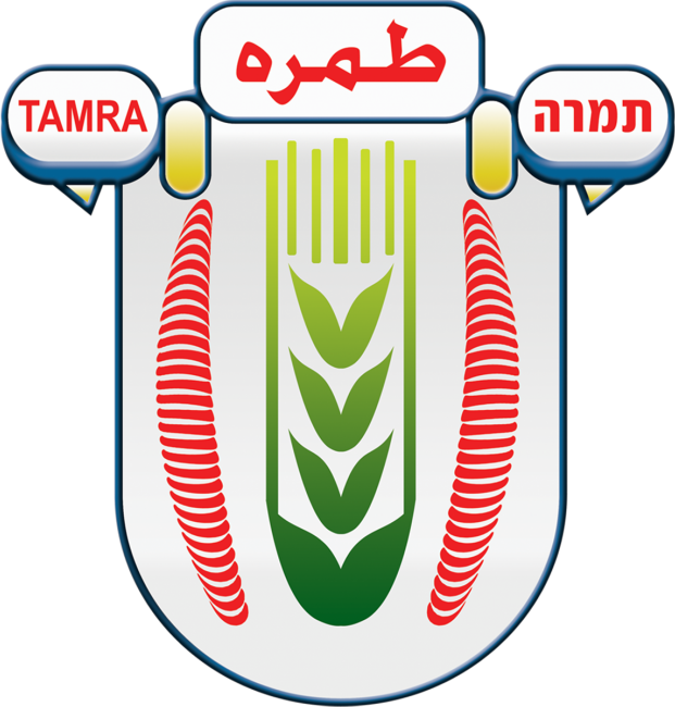 COA of the arab town of Tamra, Israel